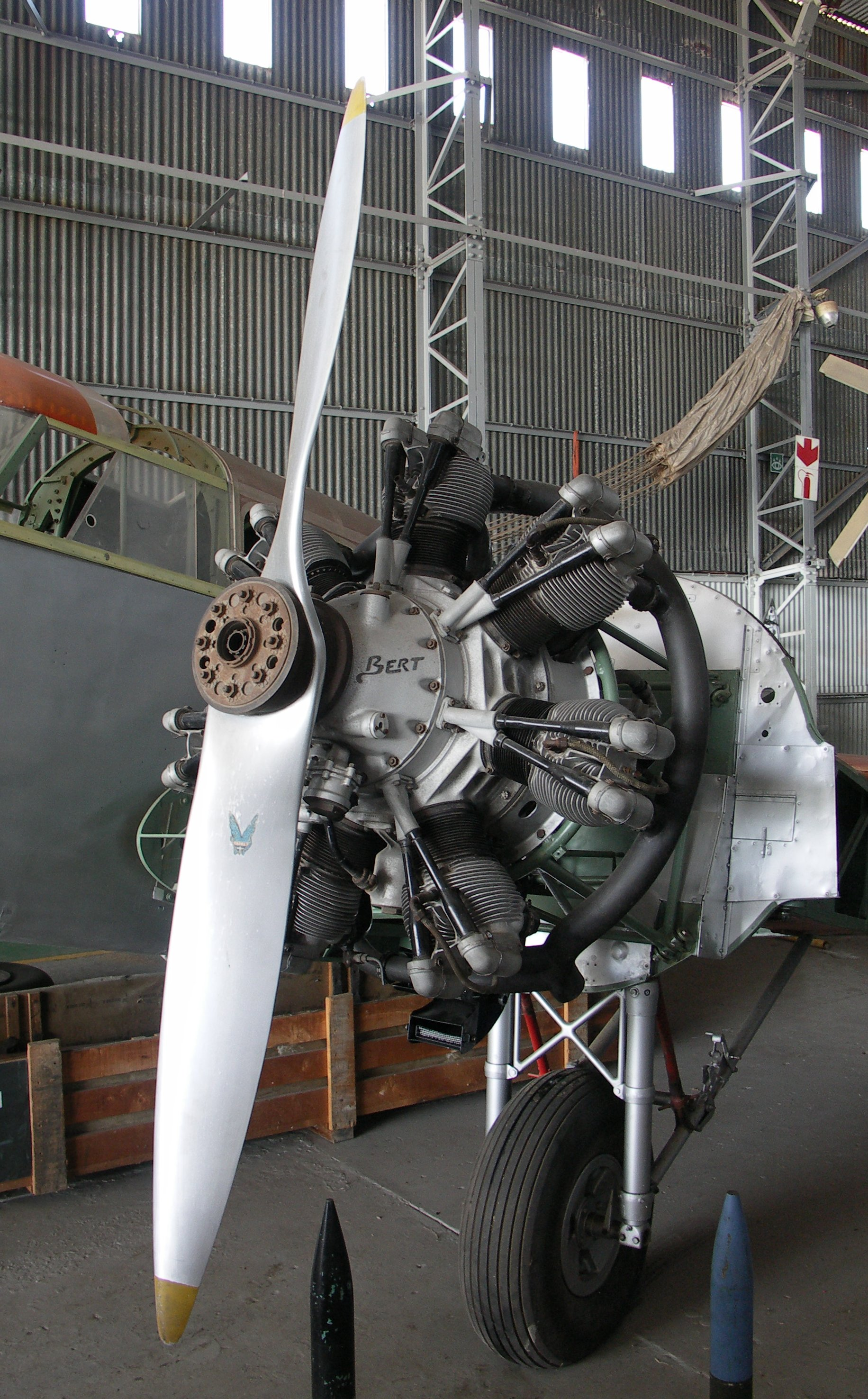 Armstrong Siddeley Cheetah engine fitted to an Airspeed Oxford undergoing restoration at the South African Airforce Museum, Port Elizabeth